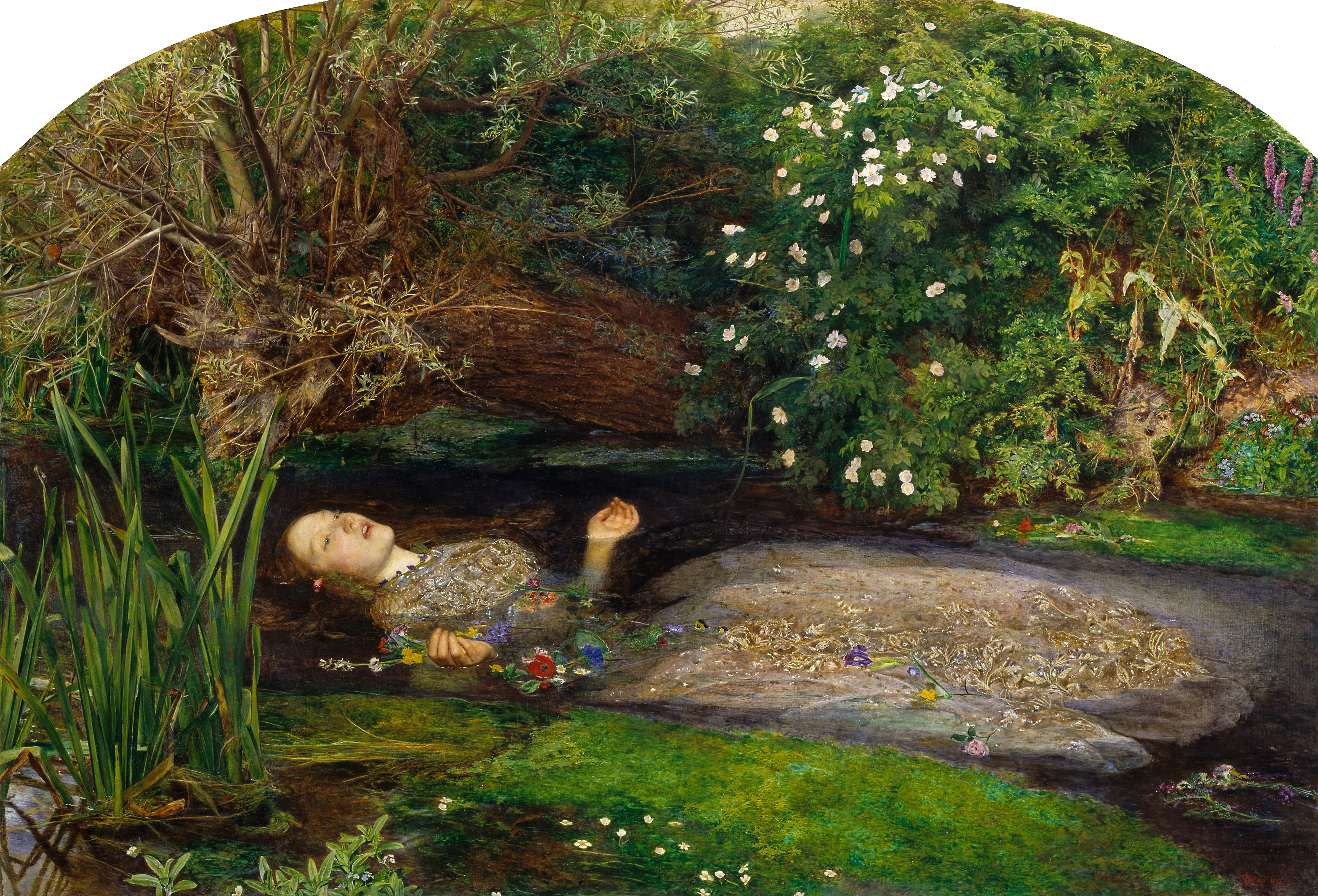 Depicted people: Ophelia and Elizabeth Siddal (sitter)